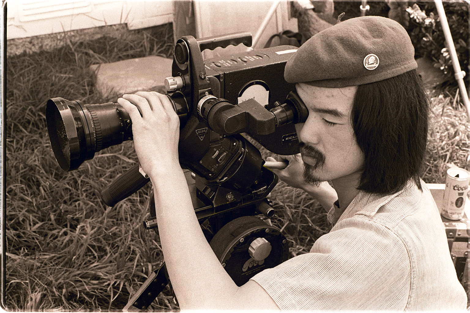 Filmmaker Curtis Choy with the 16mm Éclair NPR filming "Wendy..uh, what's her name?" *a documentary about Wendy Yoshimura) in Fresno, California 1976. Photo by Nancy Wong